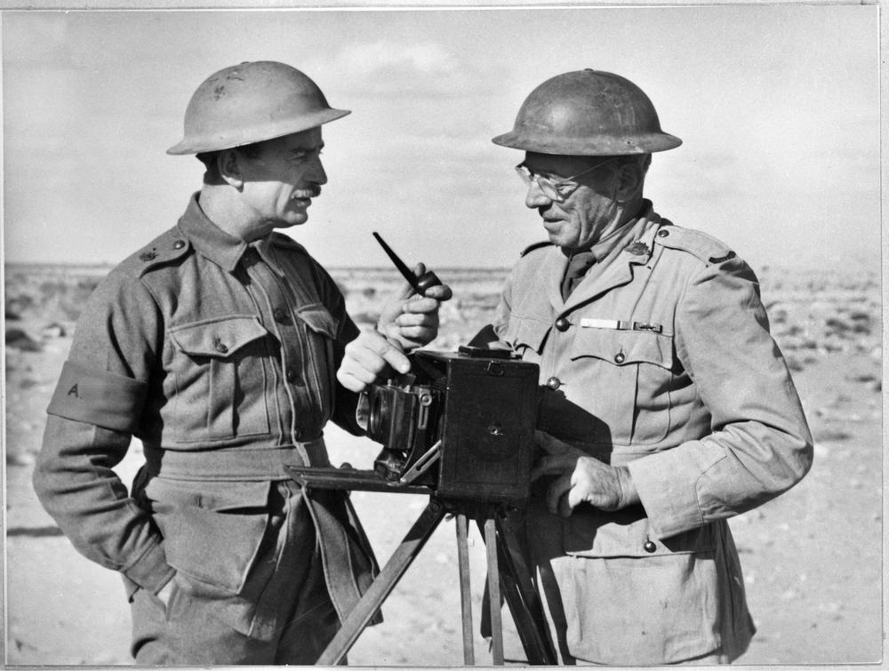 ID number: 005304 Photographer: unknown Place: Sallum, Egypt Captain Frank Hurley, official photographer, discusses photographic opportunities for the forthcoming Battle of Bardia with Major Gordon Hurley, 6th Division. Rights Info: No known copyright restrictions. This photograph is from the Australian War Memorial's collection Persistent URL